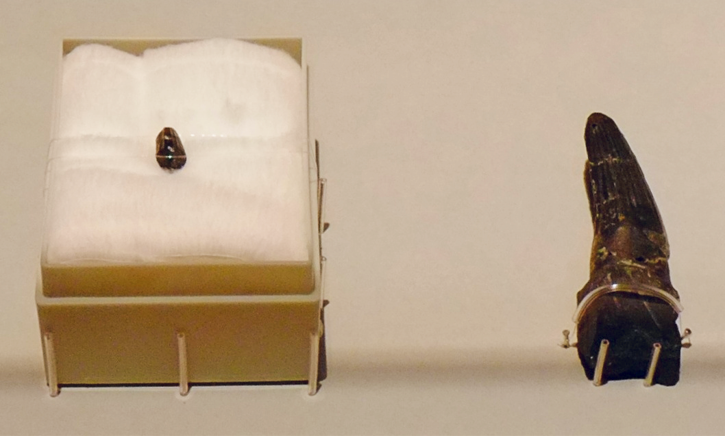 Fossil specimens KDC-PV-0003 (left) and GMNH-PV-999 (right) of spinosaurid teeth from the Sebayashi Formation at the National Museum of Nature and Science in Tokyo. Identity of specimens confirmed by comparisons with[1] and [2]